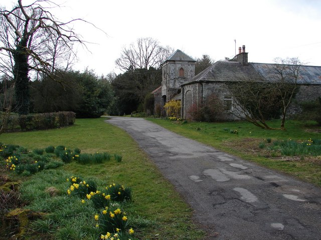 Danevale Park Stables The C19 stables has a central doocot tower over the entrance to courtyard. The original Victorian Danevale Park House was demolished and replaced.